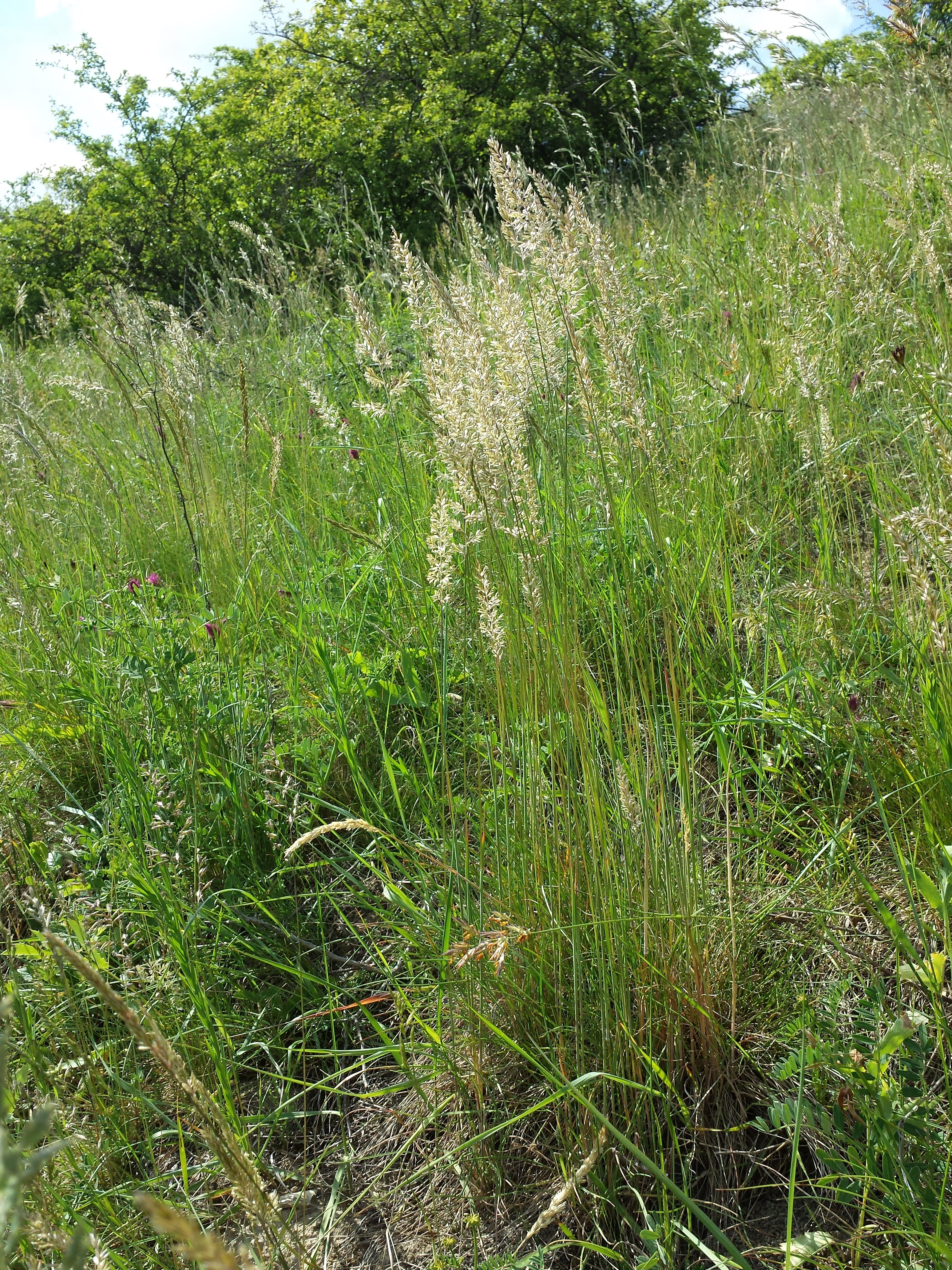 Habitus Taxonym: Koeleria macrantha ss Fischer et al. EfÖLS 2008 ISBN 978-3-85474-187-9 Location: Gebmannsberg, district Korneuburg, Lower Austria - ca. 330 m a.s.l. Habitat: semi-dry grassland